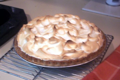 sliced Lemon Meringue Pie